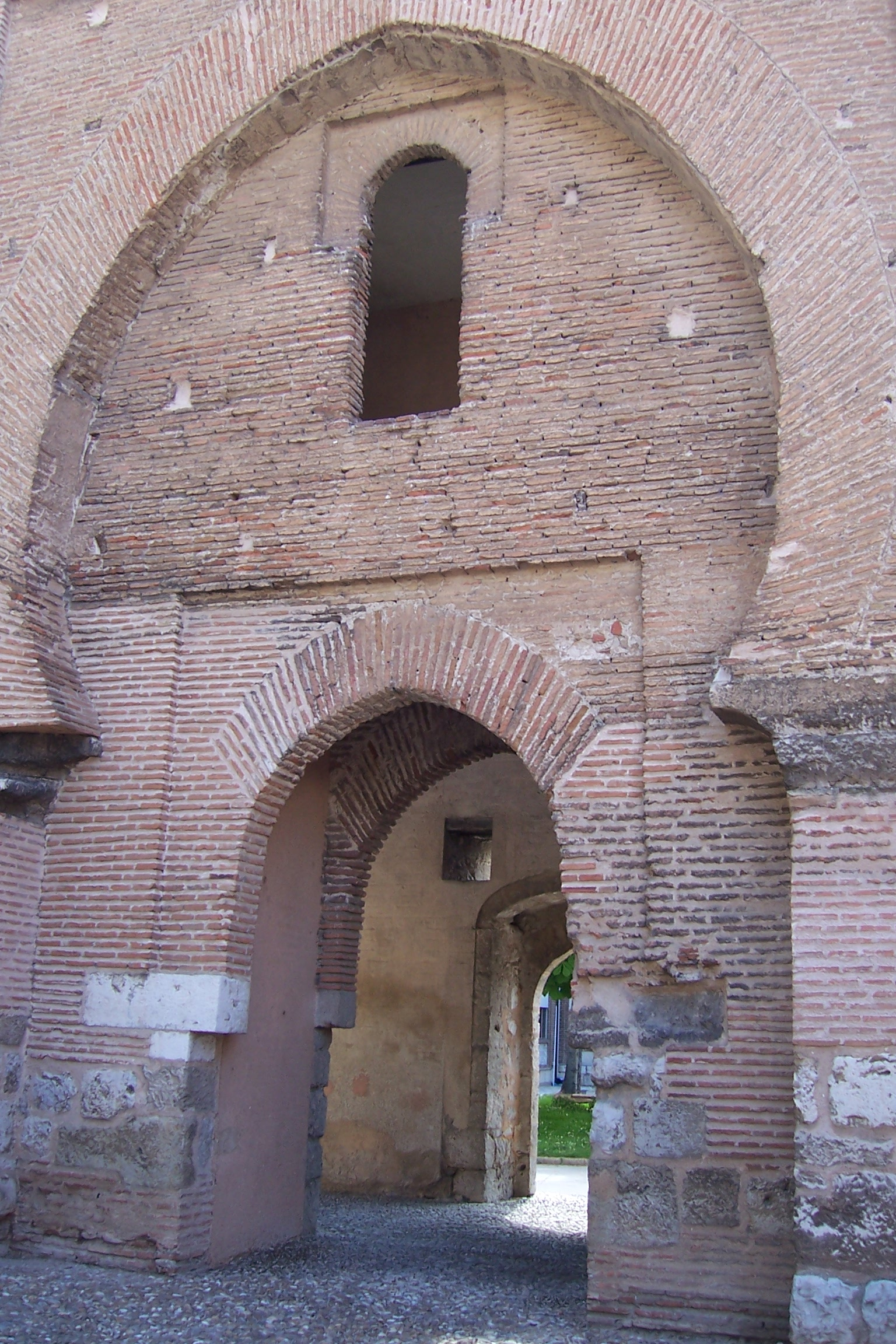 Valladolid, Spain. Door of fortification of Mudejar style constructed in brick, with ogival horseshoe arch, that by its typology is supposed that it belonged to the primitive Palace of María de Molina. It is also supposed to be used as a door to the wall of Valladolid of the fourteenth century.